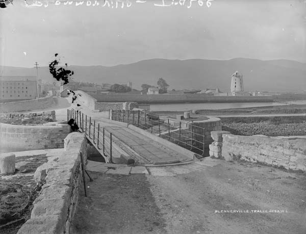 Photograph take between 1880 and 1900. Format: glass negative Part of: National Library of Ireland Lawrence Collection. For more photographs in this collection see National Library of Ireland catalogue: Reference number: L_ROY_06663